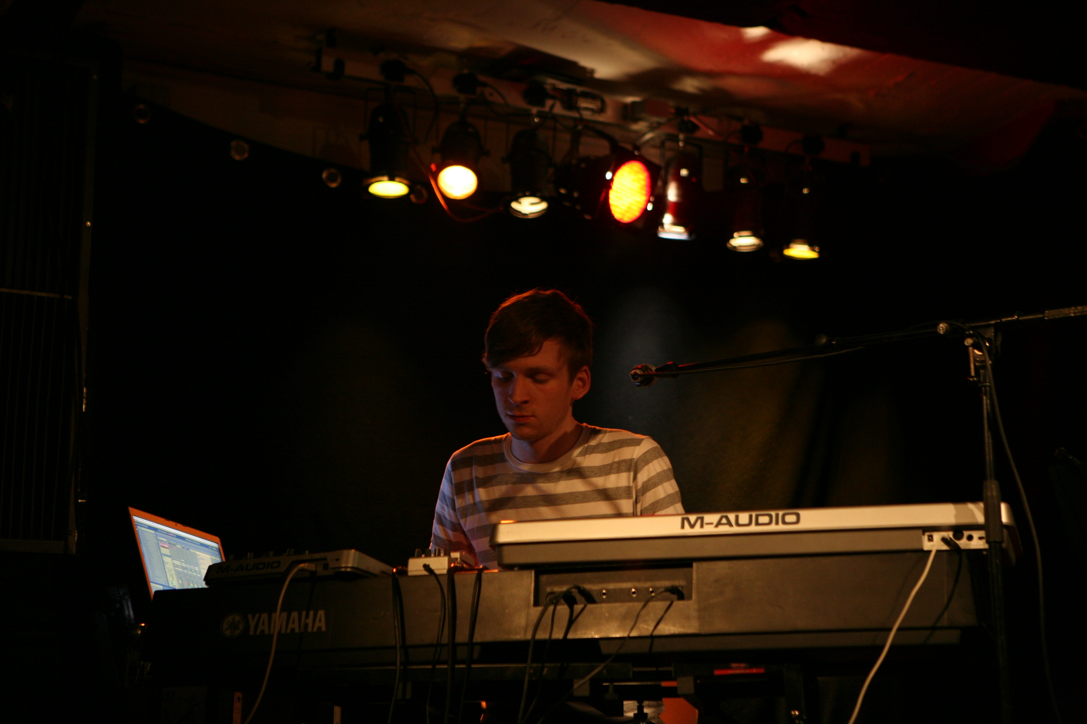 Ólafur Arnalds and String Quartett [1], 15 December 2007